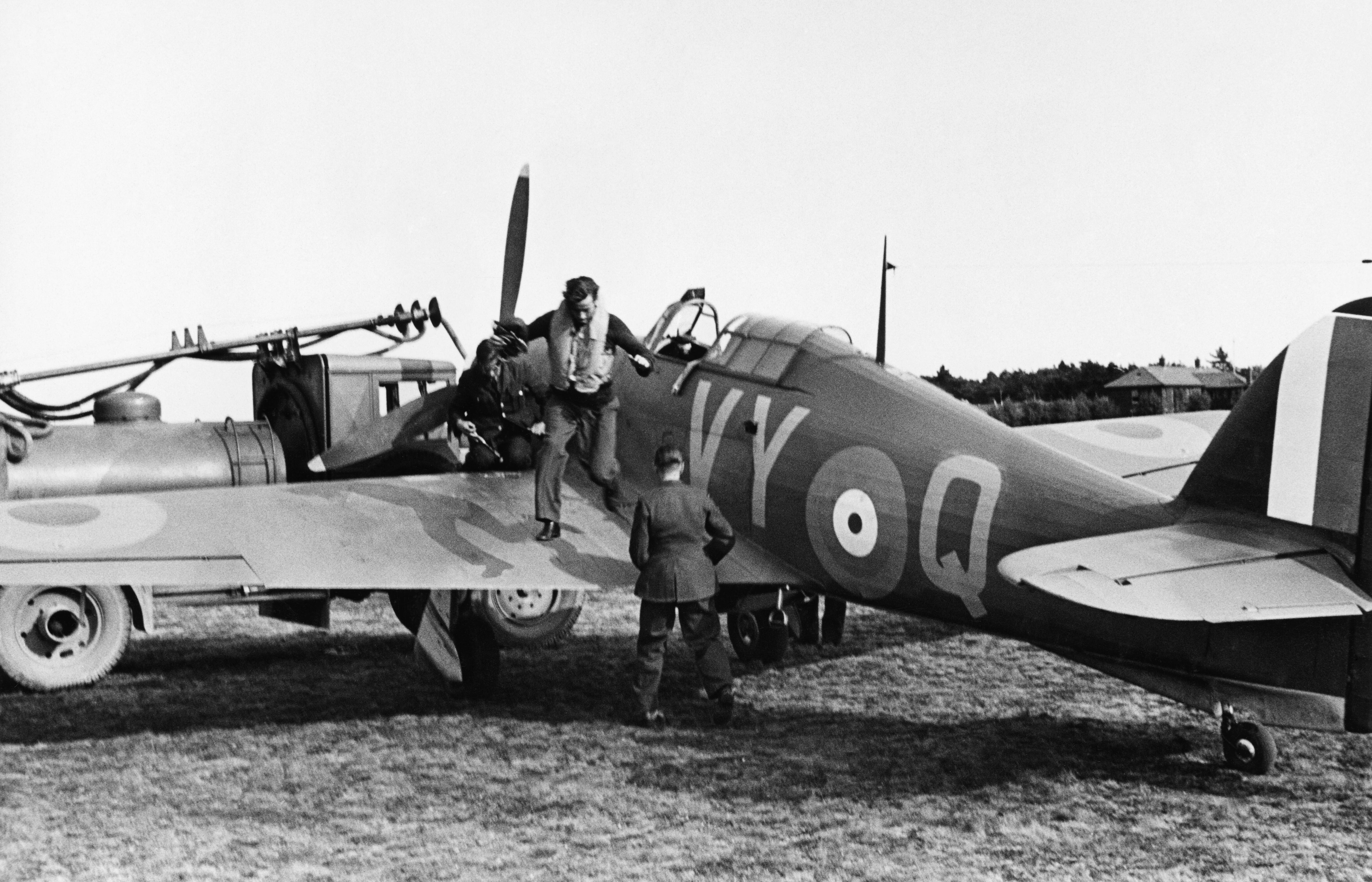 RAF Fighter Command 1940 The CO of No. 85 Squadron, Sqn Ldr Peter Townsend, jumps down from Hurricane Mk I P3166 VY-Q while being refuelled at Castle Camps, July 1940.